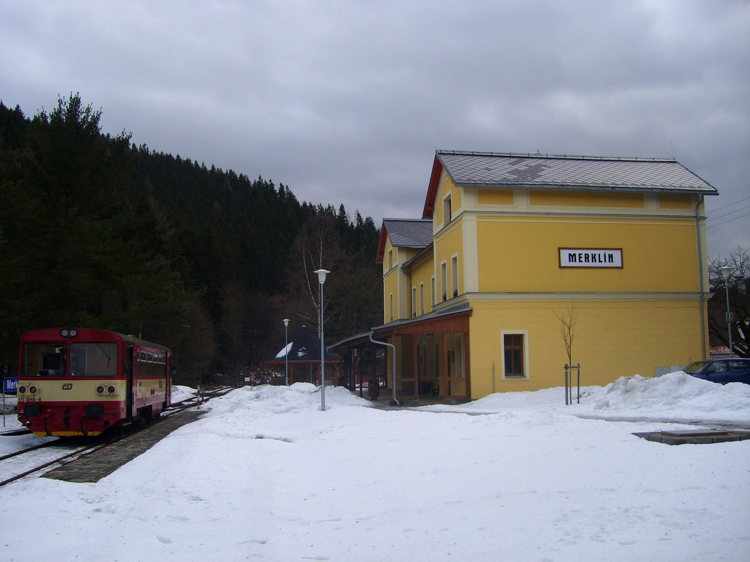 Diesel railcar 810 548-8 at a train station in Merklín at the end of a railroad line from Karlovy Vary.